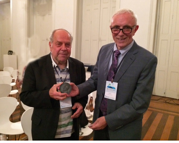 Craig Fraser presenting the 7th Kenneth O. May Medal to Eberhard Knobloch at the 25th International Congress of History of Science and Technology in Rio de Janeiro, Brazil, 2017.